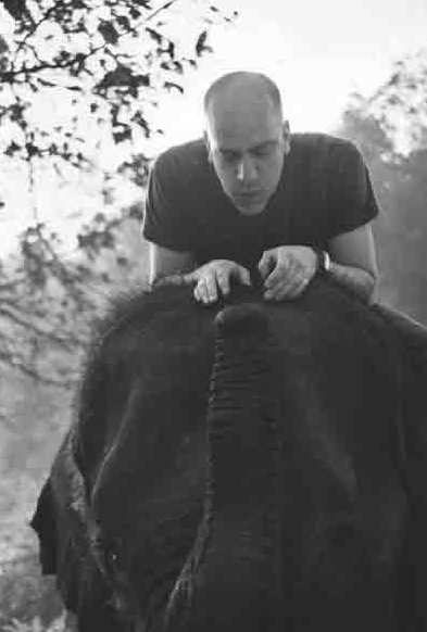 A self portrait of Dave Soldier on Jojo, an elephant in the Thai Elephant Orchestra. It is public domain and available at